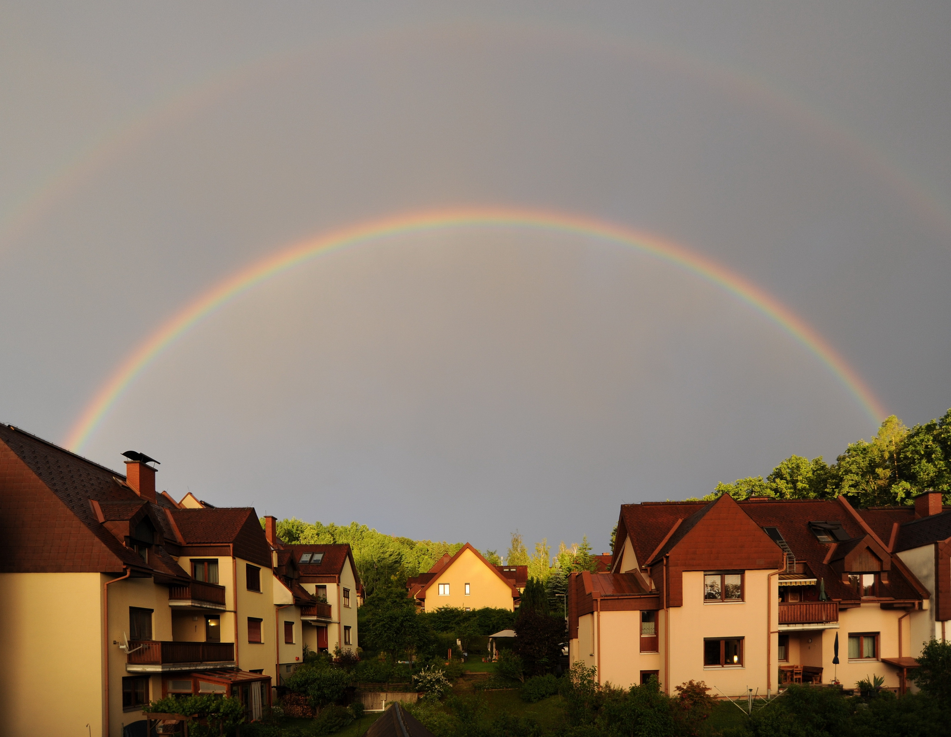 Double rainbow, Graz, Austria, 2010-05-30